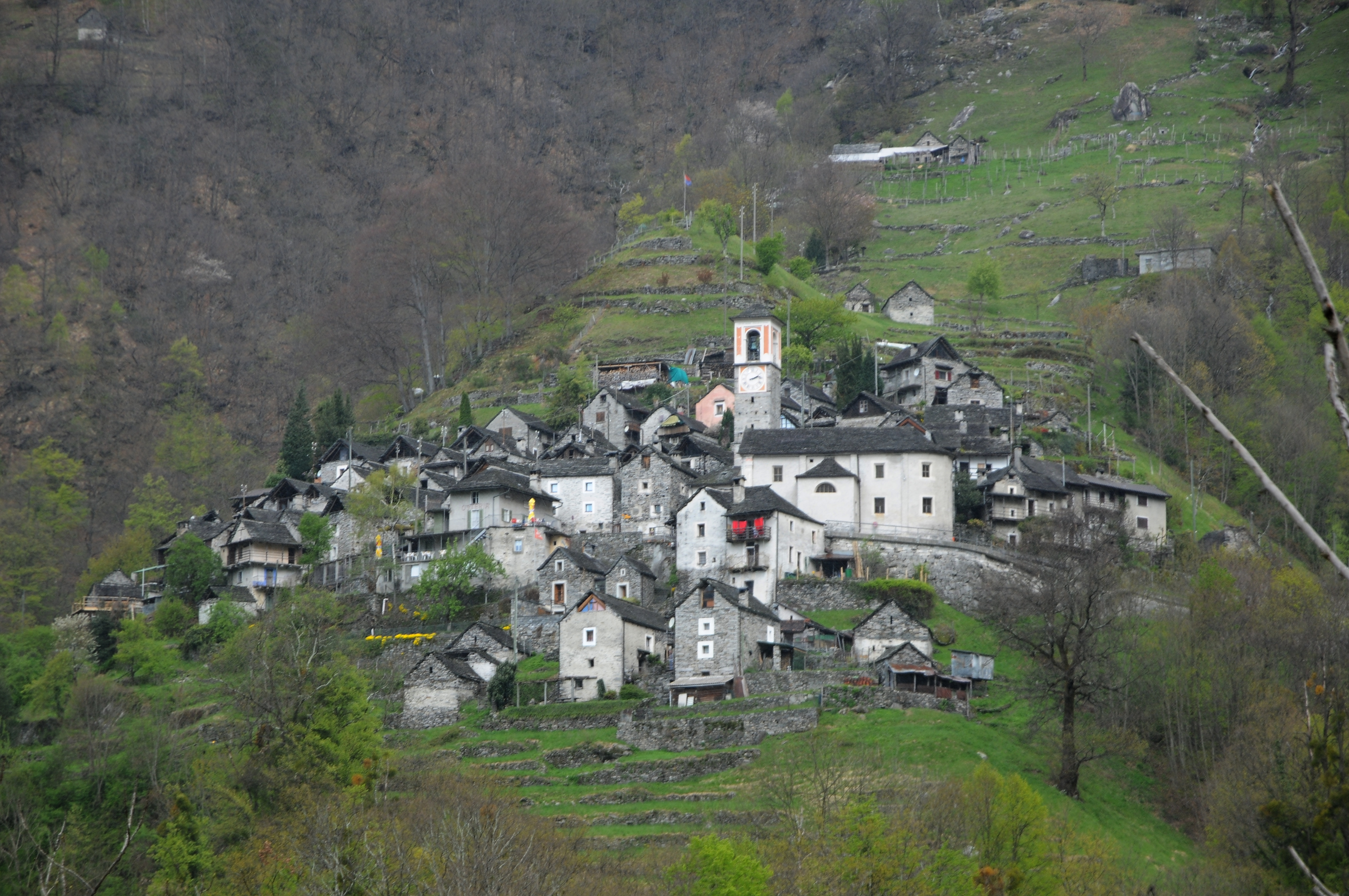 Corippo is a municipality in the district of Locarno in the canton of Ticino in Switzerland.